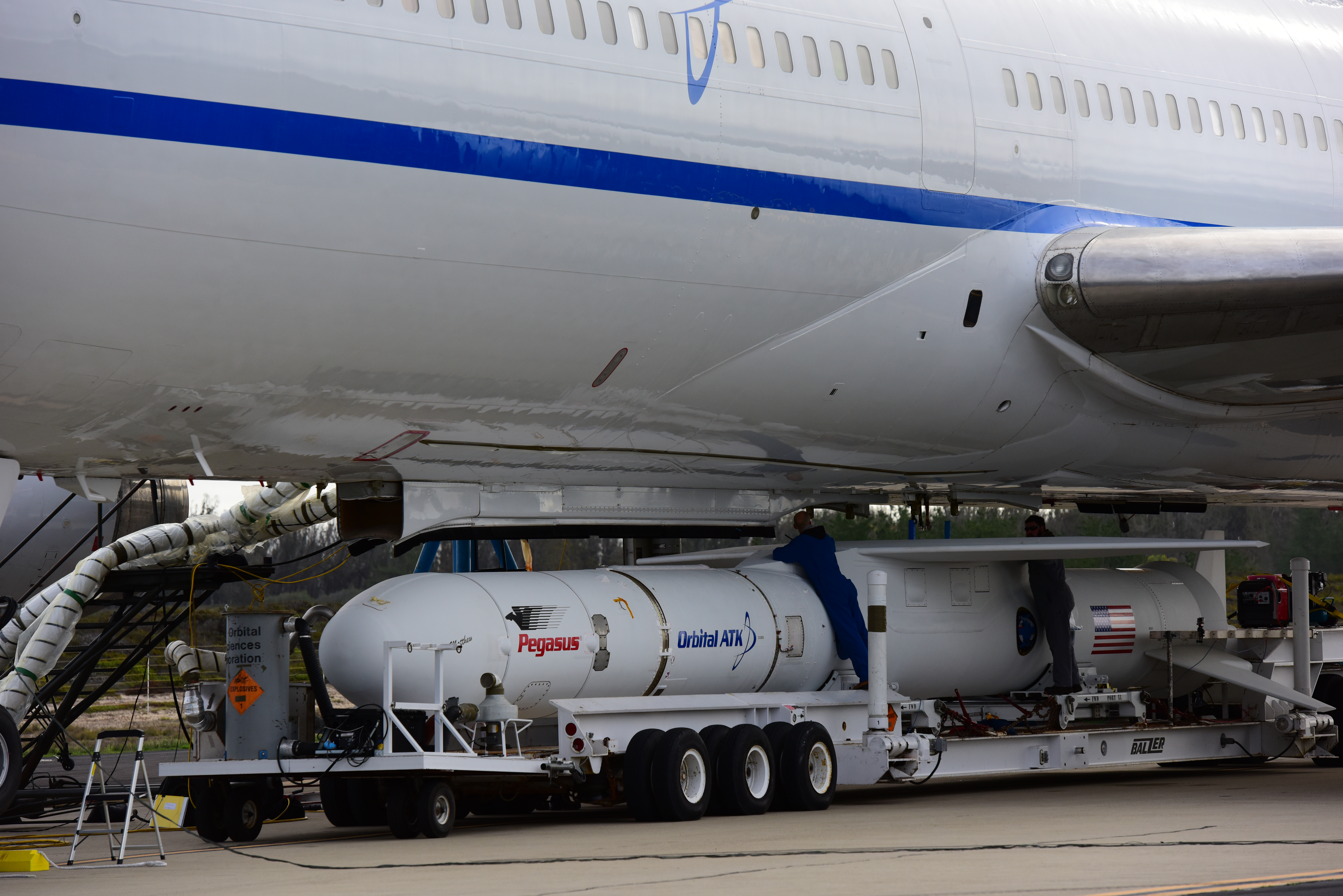 At Vandenberg Air Force Base in California, an Orbital ATK Pegasus XL rocket is mated to the company's L-1011 carrier aircraft near Vandenberg's runway. On board Pegasus are eight NASA Cyclone Global Navigation Satellite System, or CYGNSS, spacecraft. When preparations are competed at Vandenberg, the L-1011/Pegasus XL combination will be flown to NASA’s Kennedy Space Center in Florida. On Dec. 12, 2016, the carrier aircraft is scheduled to take off from the Skid Strip at Cape Canaveral Air Force Station and CYGNSS will launch on the Pegasus XL rocket with the L-1011 flying off shore. CYGNSS satellites will make frequent and accurate measurements of ocean surface winds throughout the life cycle of tropical storms and hurricanes. The data that CYGNSS provides will enable scientists to probe key air-sea interaction processes that take place near the core of storms, which are rapidly changing and play a critical role in the beginning and intensification of hurricanes. Photo credit: NASA/Dan Herrera of the U.S. Air Force 30th Space Wing NASA image use policy.